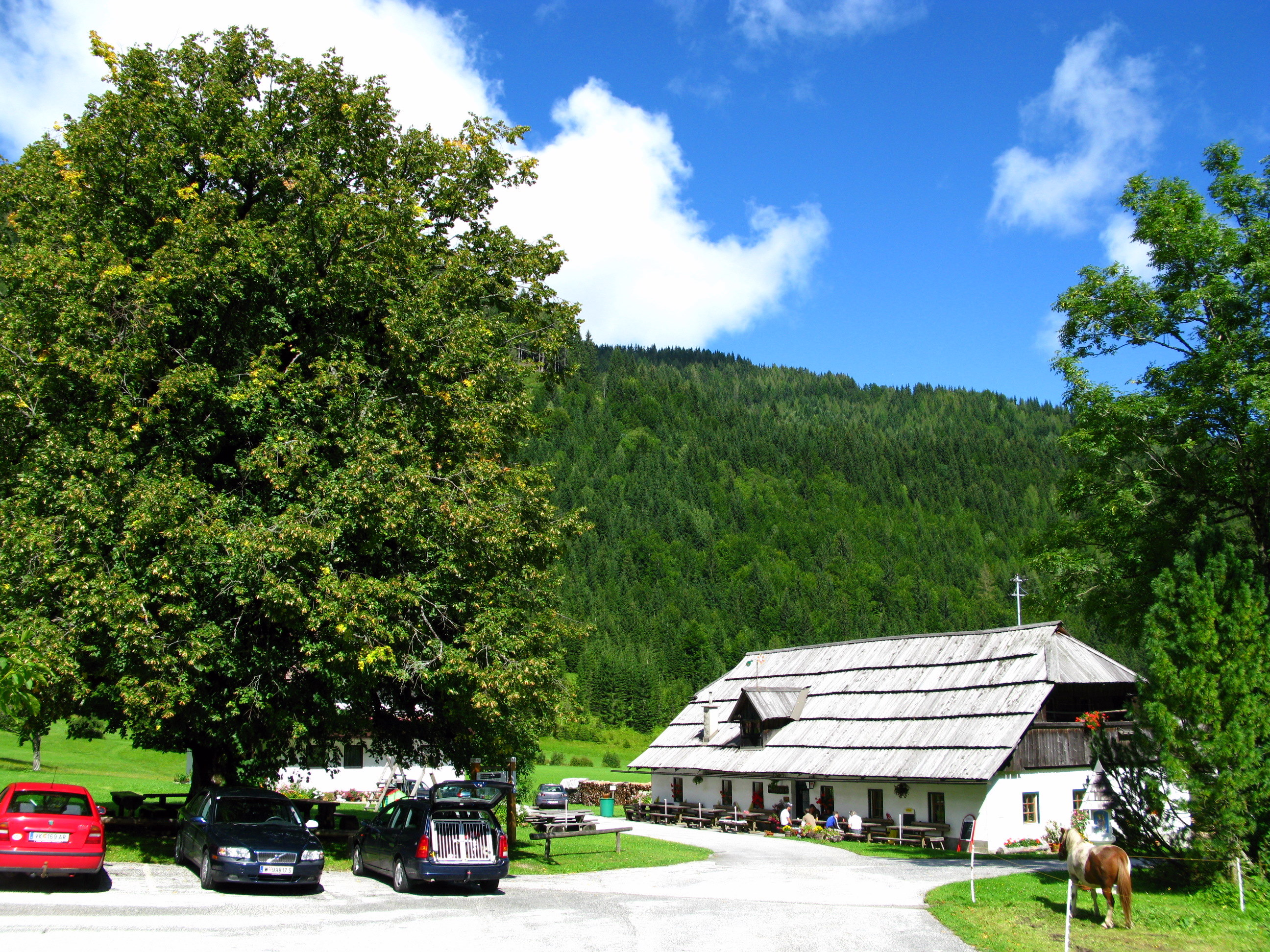 The farm Bodenbauer (slow. Podnar) 2008 in the Bodental Valley near Ferlach / Carinthia / Austria / EU. ⇒ The same camera position in Winter 1910, in Winter 2008.